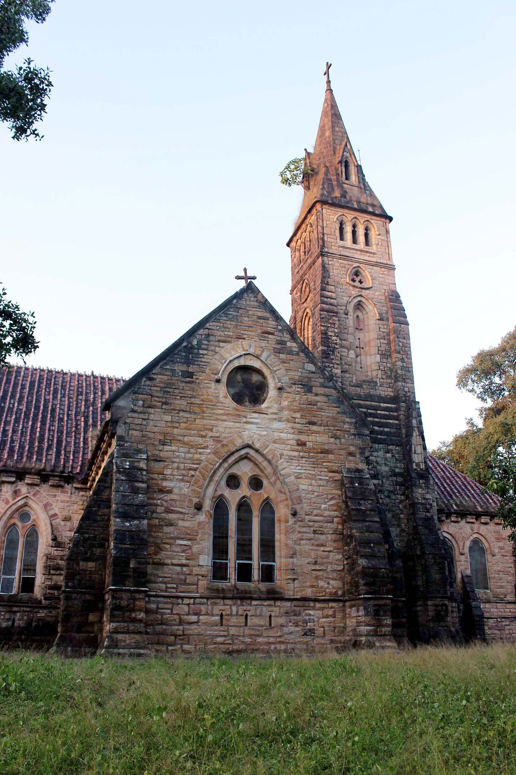 Protestant Church Pachmarhi